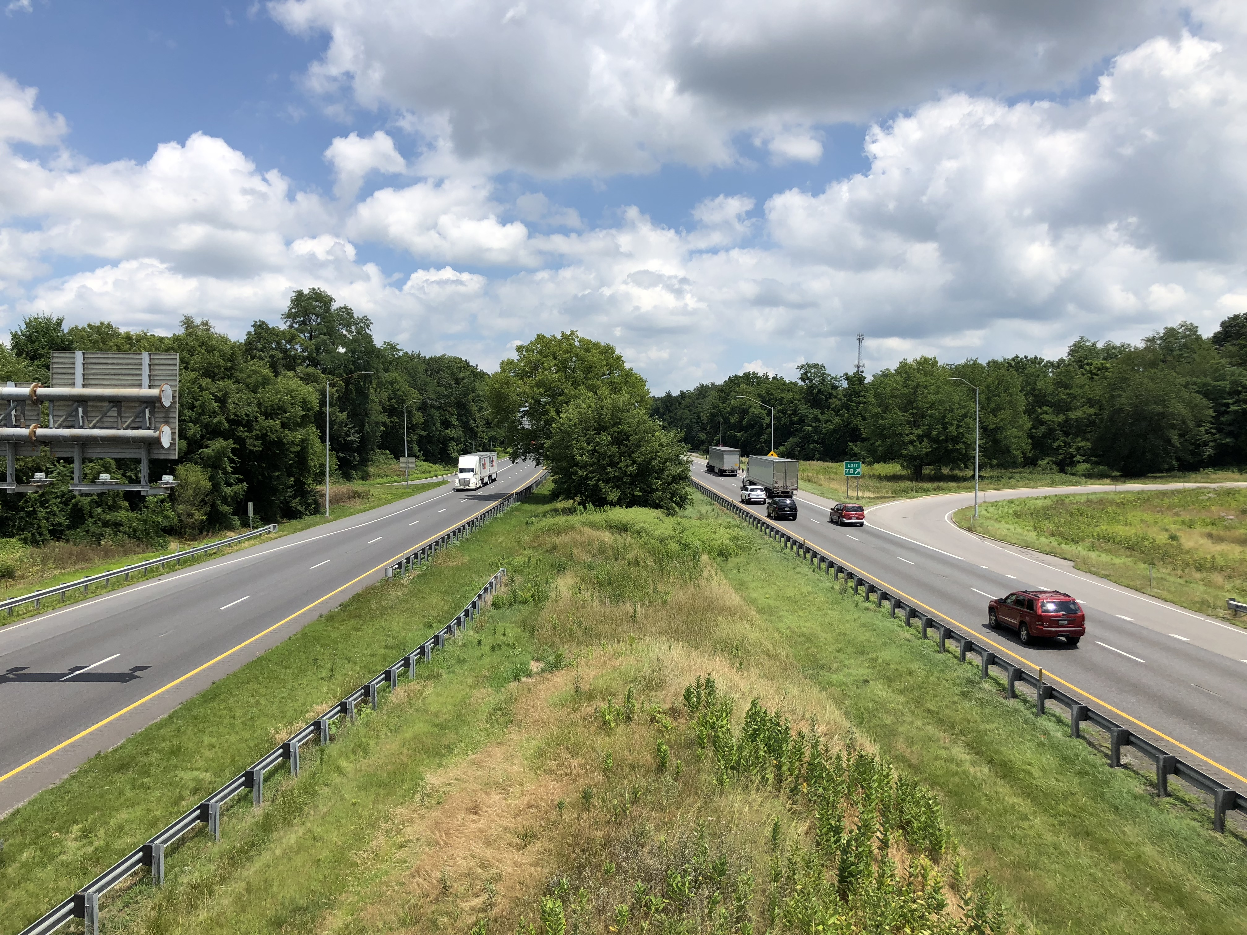 View north along Interstate 81 from the overpass for Maryland State Route 58 (Cearfoss Pike/Salem Avenue) in Hagerstown, Washington County, Maryland